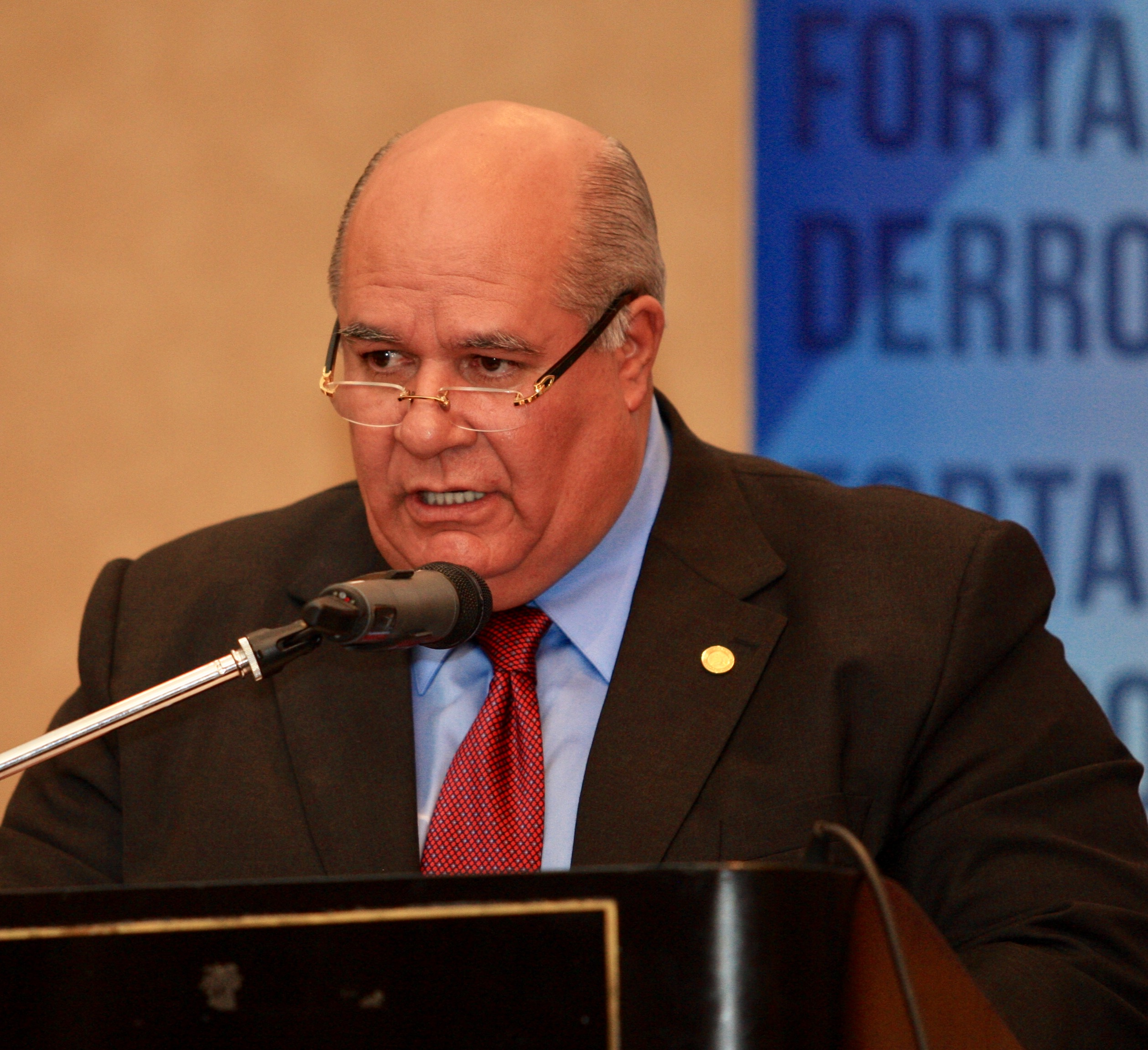 Julio Ligorria intervención